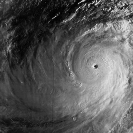 Typhoon Tip at peak intensity. Made by using the snapshot tool in Adobe Reader and edited using IrfanView.